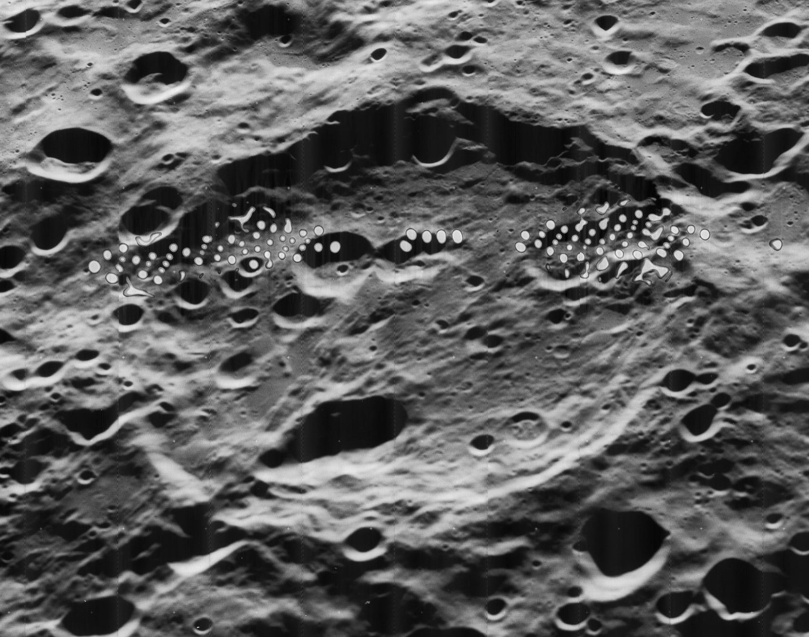 Oblique view of Fersman, on the far side of the moon, facing west. Dots in horizontal band on image are blemishes on original.